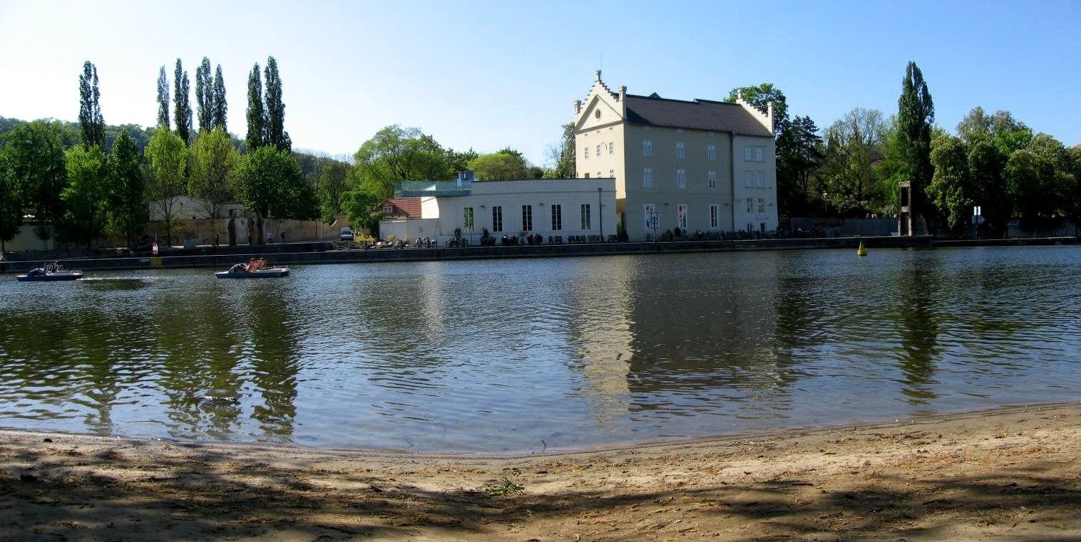 The Kampa Museum in Prague, Czech Republic